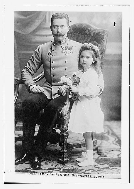 Princess Sophie of Hohenberg and her father